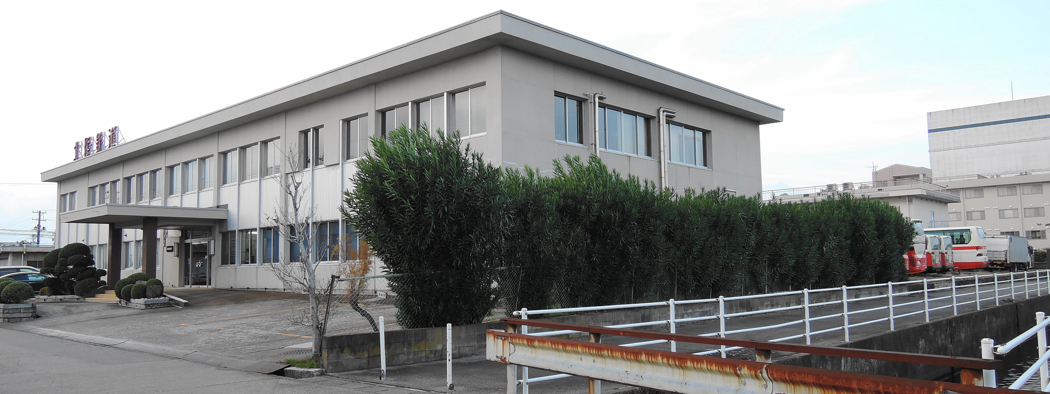 Headquarters of Hokuriku Railroad Co.,Ltd.,Ishikawa prefecture,Japan